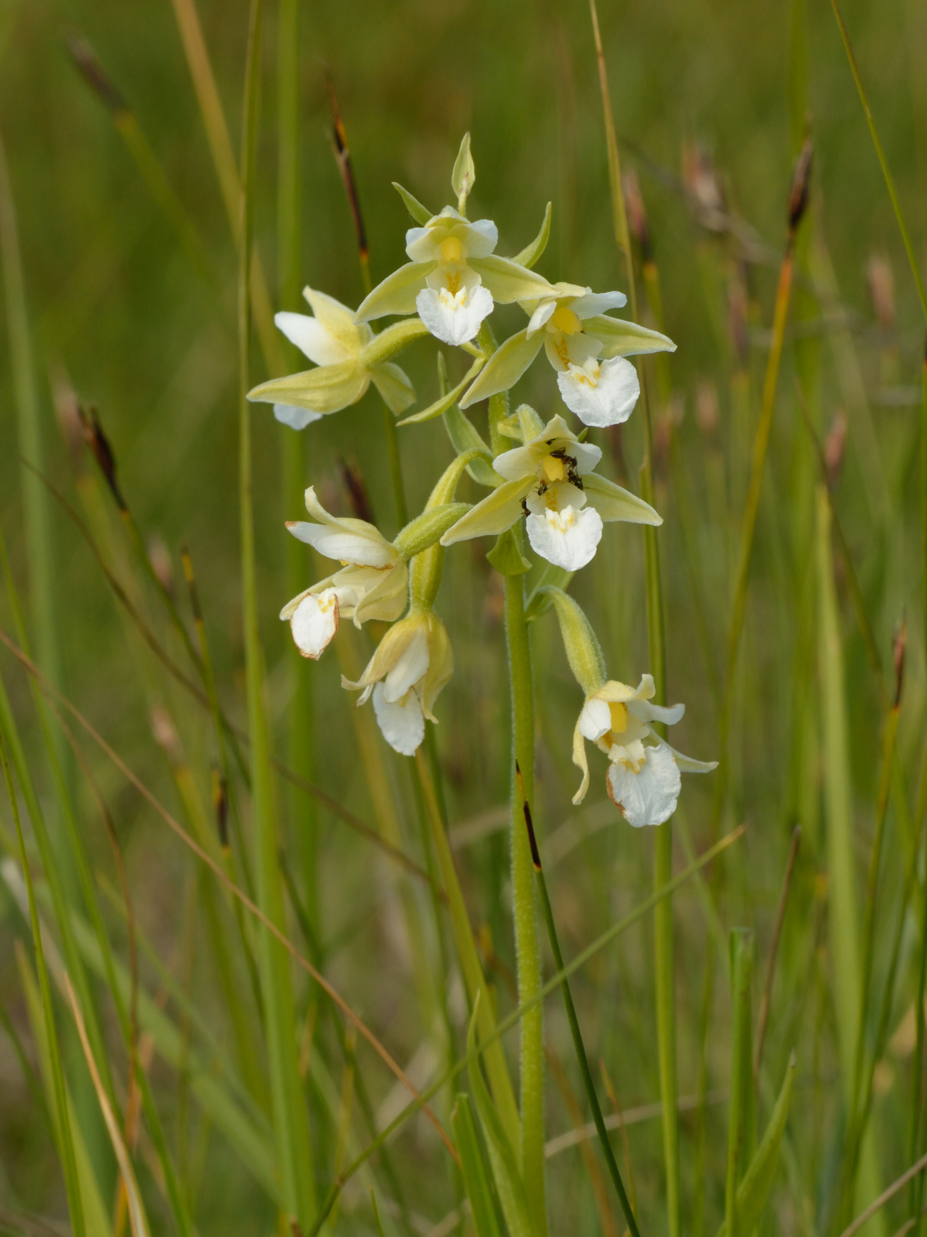 A pale form of marsh helleborine (Epipactis palustris var. ochroleuca). Niitvälja bog, Northwestern Estonia.